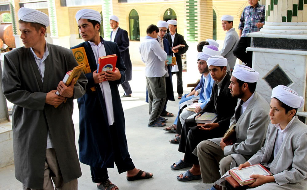 Sunni Muslims students at Rabbaniyah Madrassah, Chenarli, Maraveh Tappeh County, Golestan Province, Iran